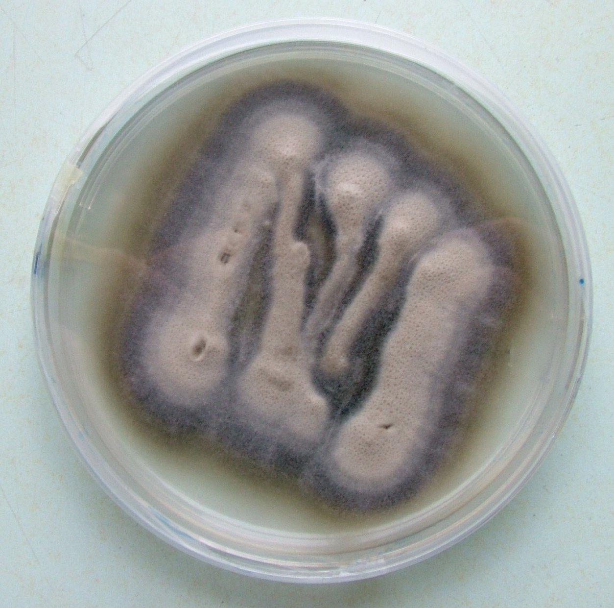 Culture of Verticillium theobromae, showing different coloured zones in the mycelium, grown on potato-dextrose-agar medium